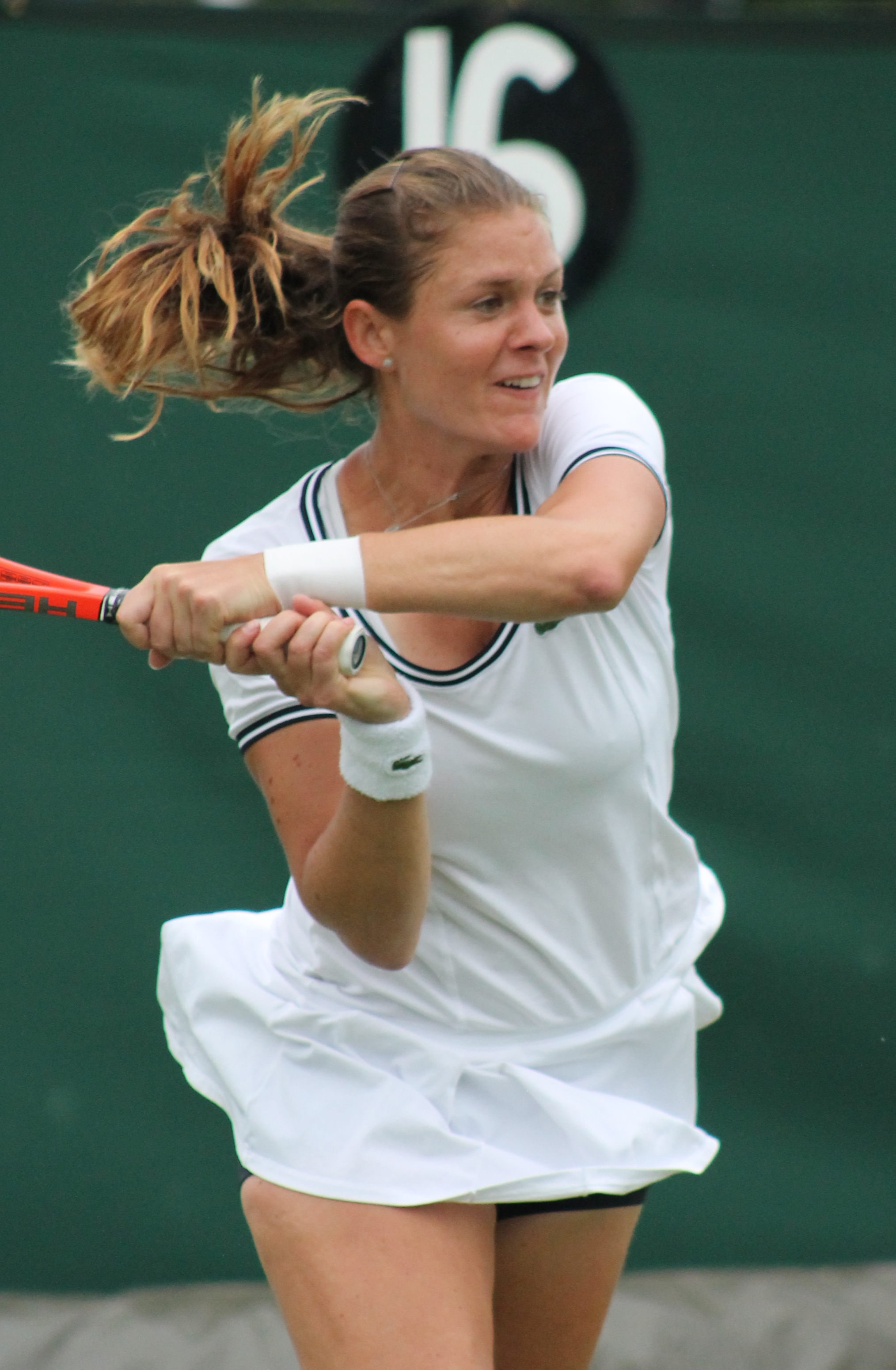 Julie Coin, 2013 Wimbledon Qualifying Tournament